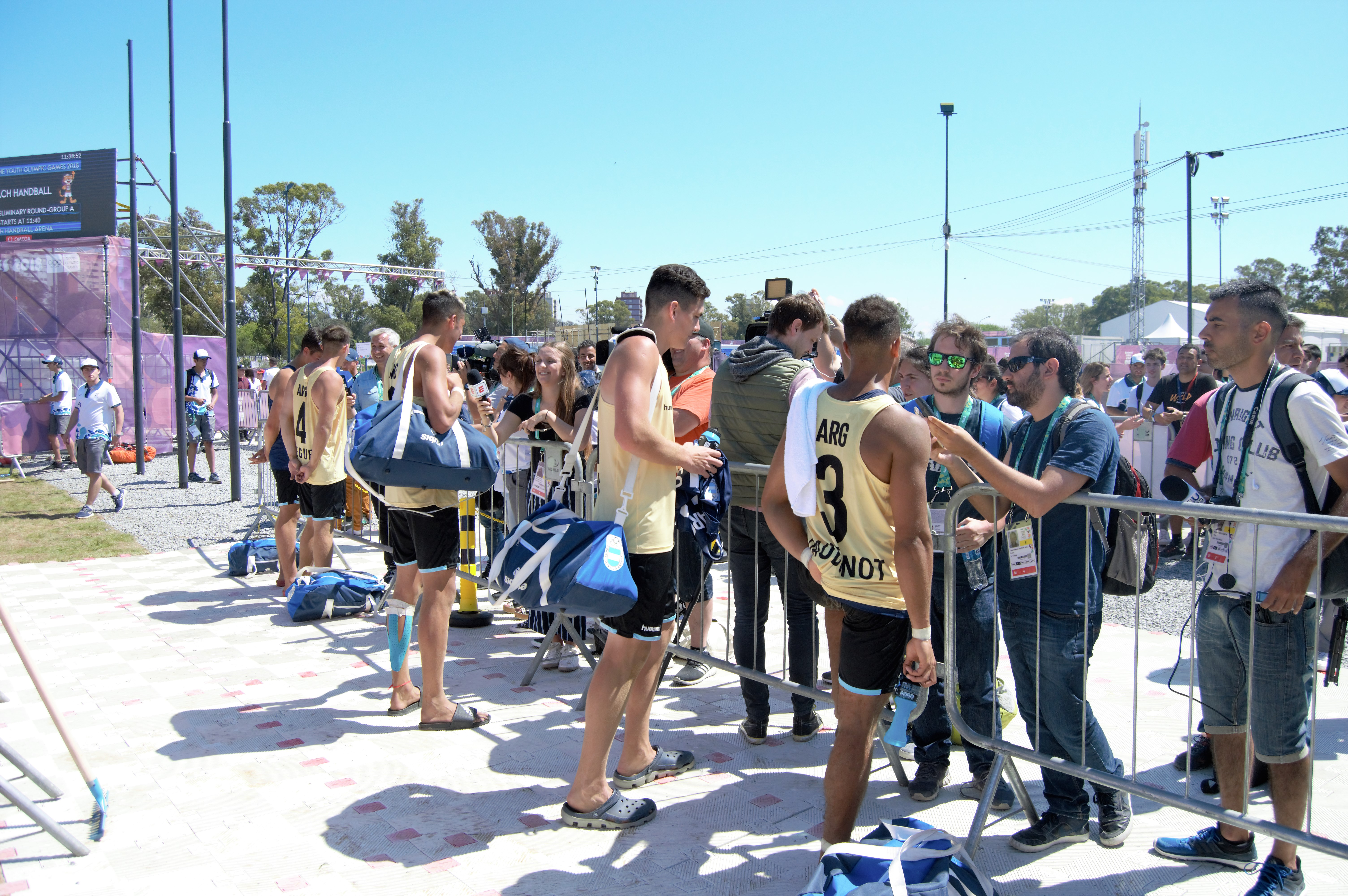 The press does an interview to the Argentine Beach Handball team of the 2018 Summer Youth Olympics.